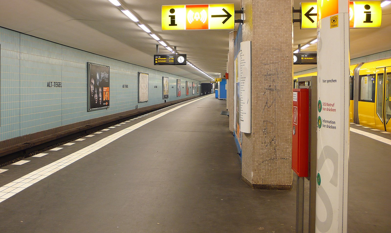 Subway Station Alt Tegel